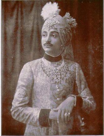 Acknowledgement page from Purnachandra Odia.Bhashakosha showing a picture of Rajendra Narayana Singh Deo